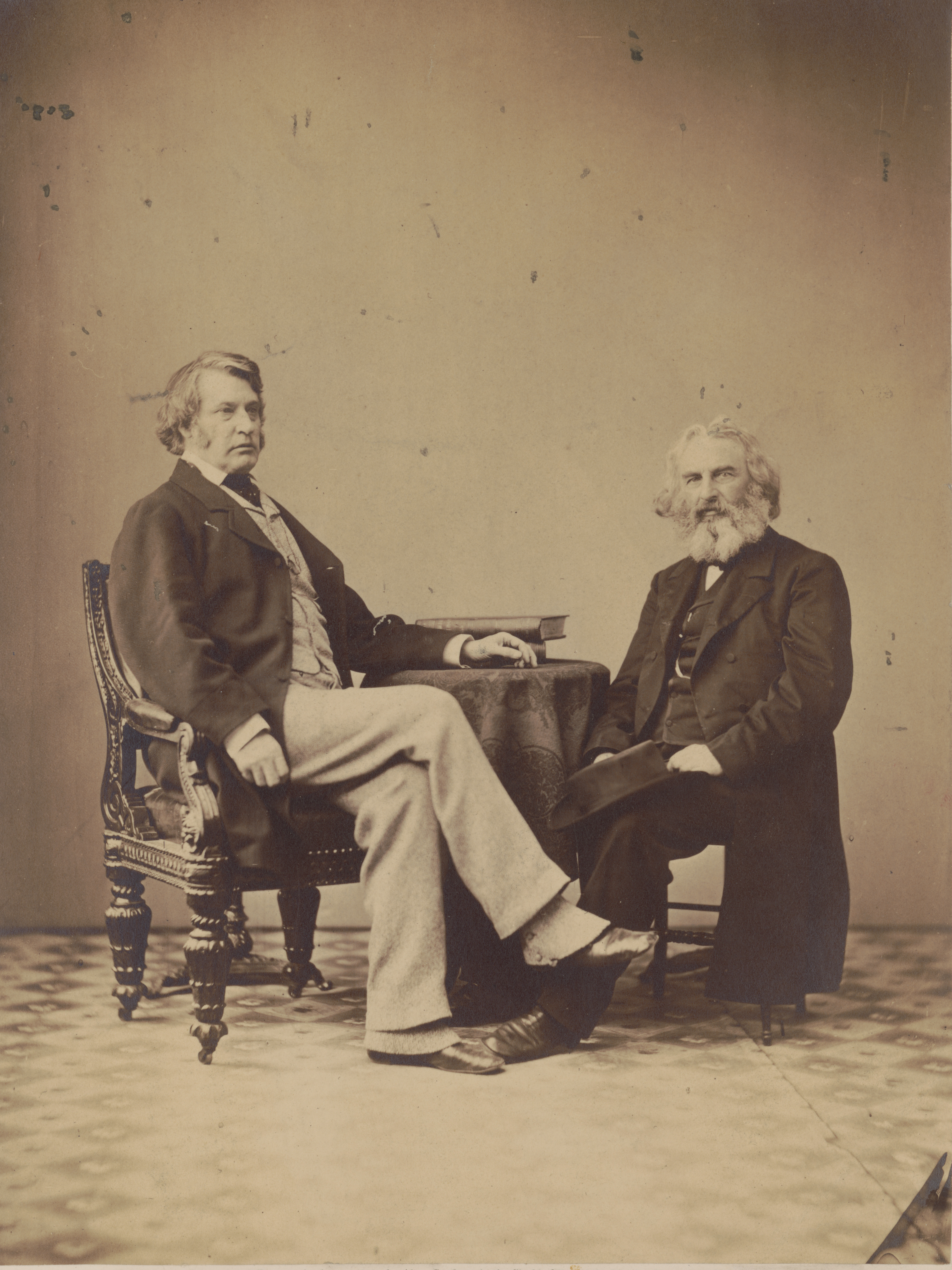 Portrait of Senator Charles Sumner and Henry Wadsworth Longfellow. Titled by the photographer "The Politics and Poetry of New England". (See Longfellow Rediscovered by Charles C. Calhoun. Beacon Press, 2004: 229. ISBN 0-8070-7026-2)